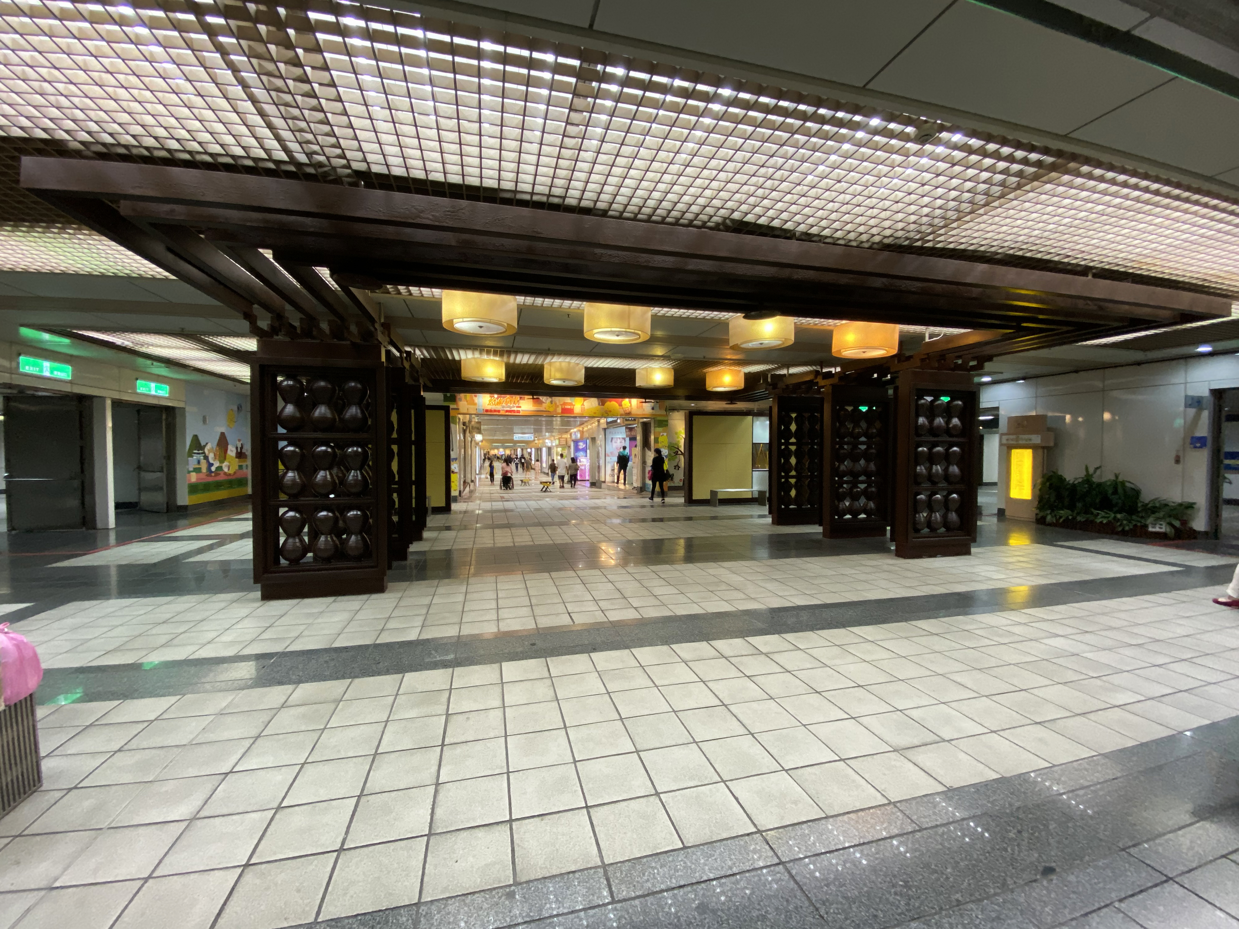 東區地下街 East Metro Mall